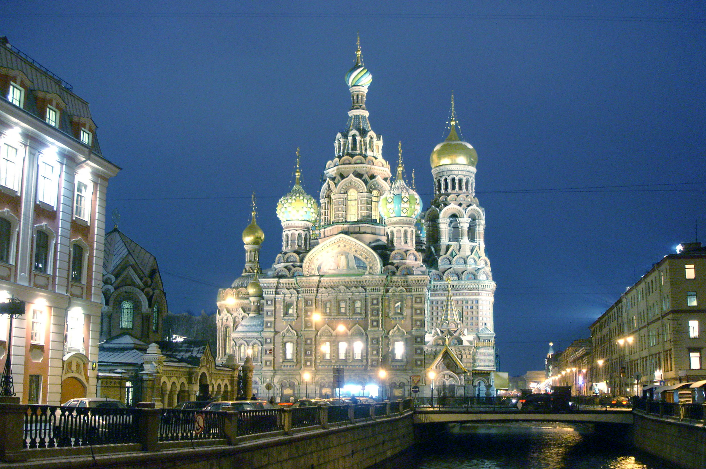 Church of the Saviour on the Blood at Night, St. Petersburg, Russia